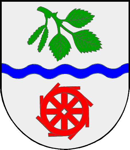 Coat of arms of the municipality Brickeln in Schleswig-Holstein, Germany.